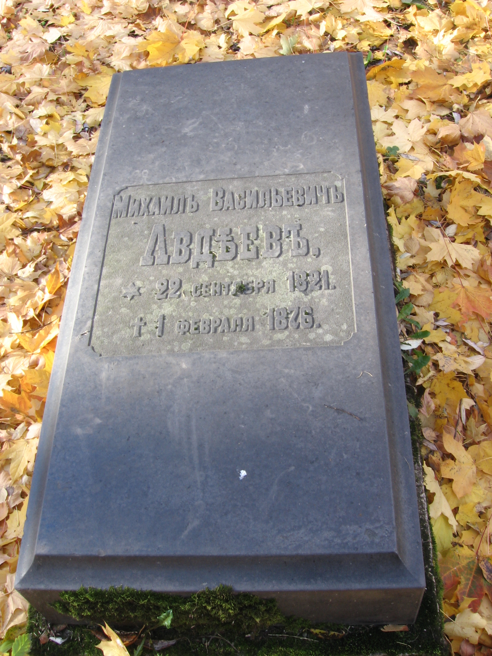 Grave of M. V. Avdeyev